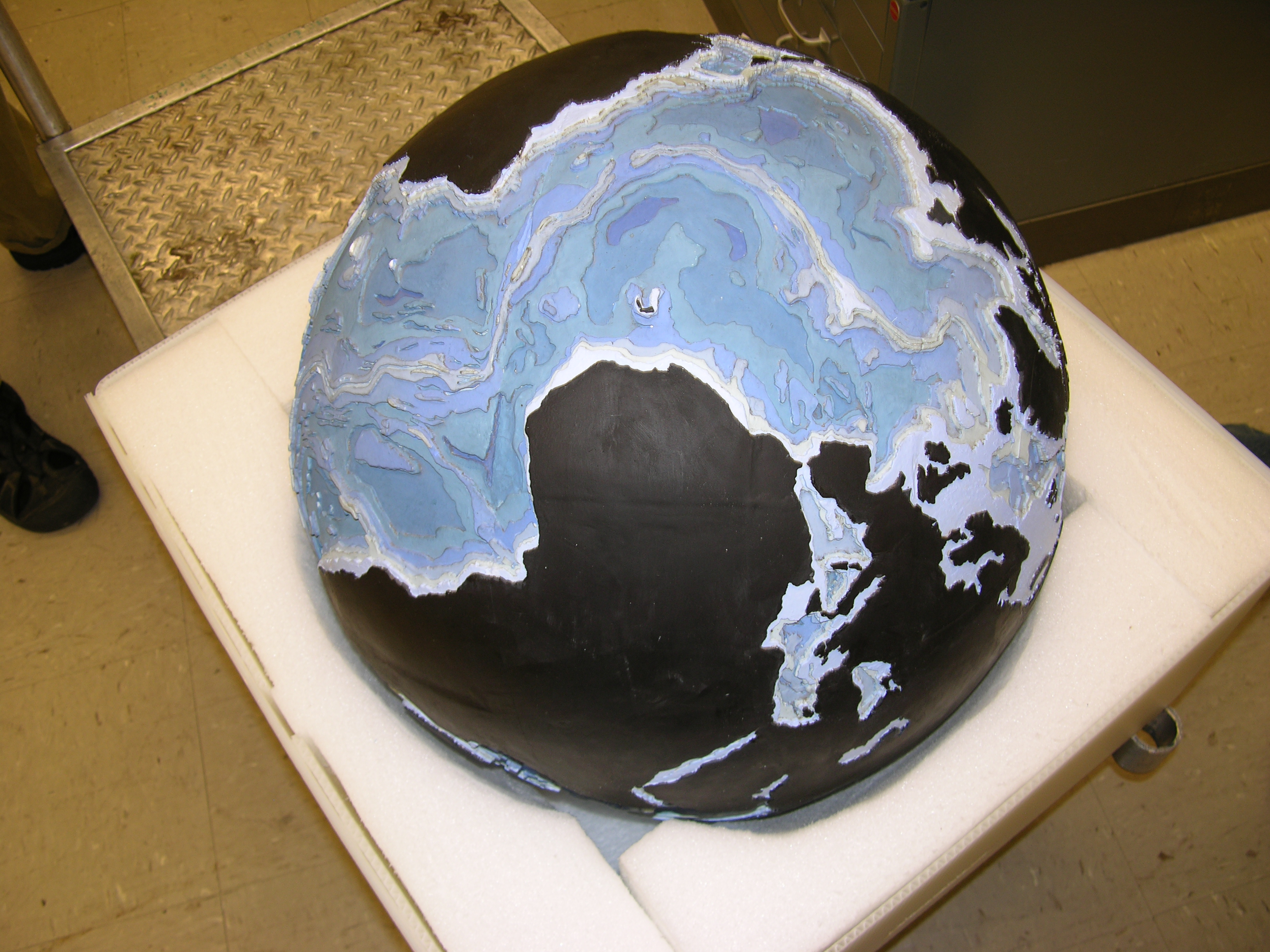 Stages in the production of the famous basketball bathymetric globe produced by Bruce Heezen and Marie Tharp in their quest to understand the physiography of the seafloor. These models reside in the Library of Congress Geography and Map Division. Image ID: map00318, Voyage To Inner Space - Exploring the Seas With NOAA Collect Photographer: Captain Albert E. Theberge, NOAA Corps (ret.)